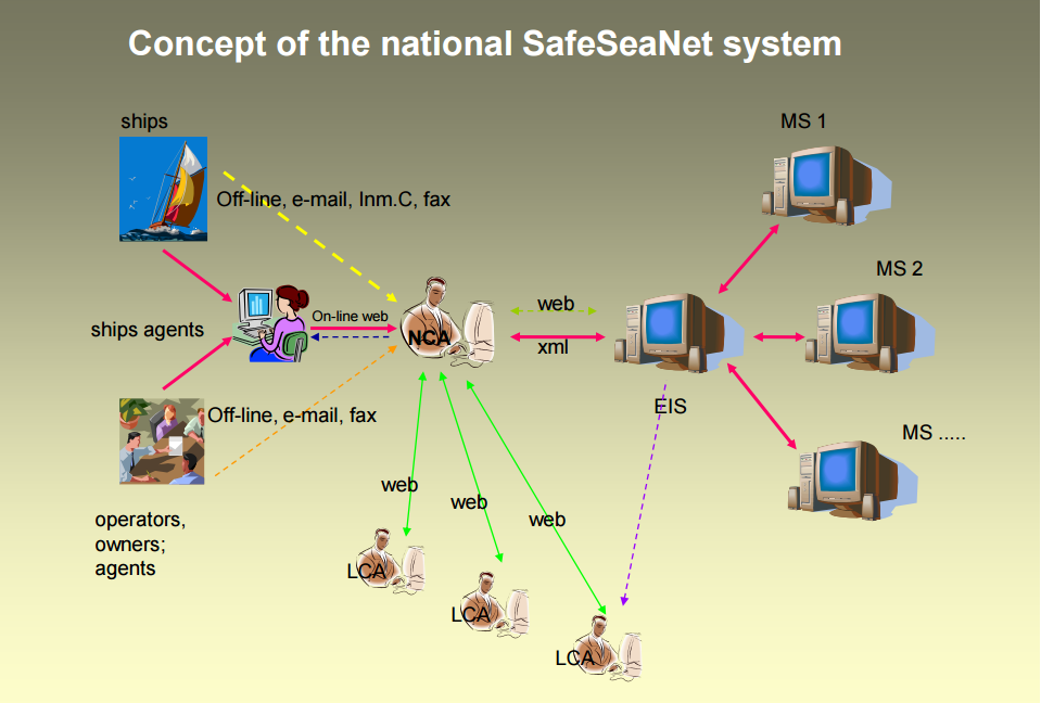 Concept of national SafeSeaNet system